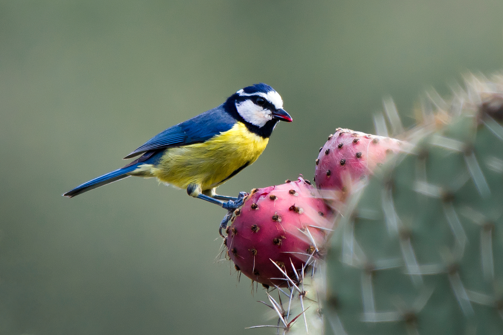 Herrerillo canario – Cyanistes teneriffae hedwigii